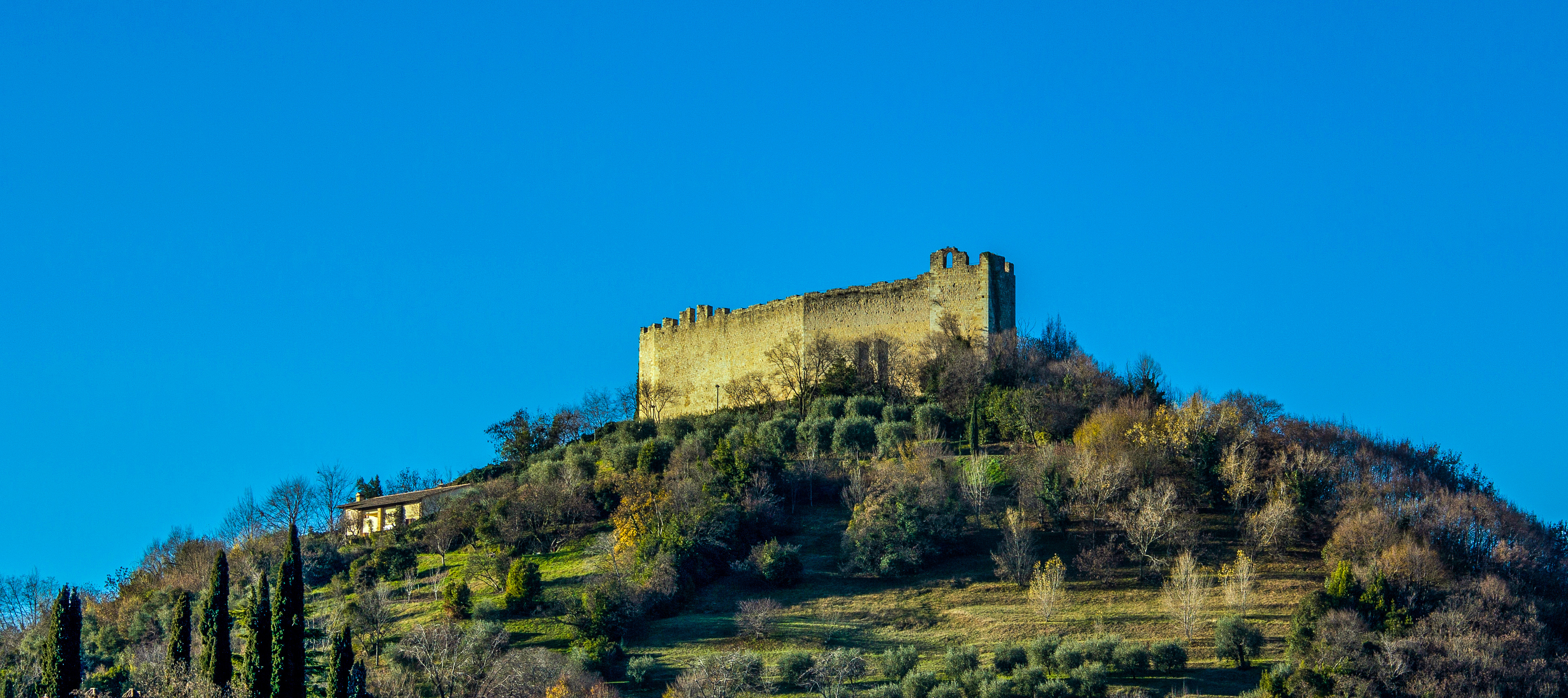 Nestling in an enchanting hilly landscape, Asolo is one of the best-known and loveliest villages in Italy. Asolo "the city of a hundred horizons", in the picture the Asolo's fortress over Mount Ricco, its date of construction is placed between the end of the twelfth century and the beginning of the thirteenth century.